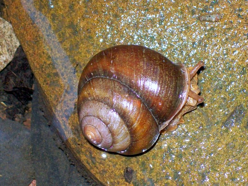 A rainforest snail from the genus Meridolum, 4 cm shell length. At Camp Gully Creek, Garawarra State Conservation Area, Australia. (Just after this photo was taken, the snail fell backwards into Camp Gully Creek.) I restored the snail to its original position after the photo was taken.(-34.18506 south, 151.00581 east). The Australian Museum identified the snail as Meridolum marshalli. However, Michael Shea of the Australian museum says that recent research suggests this species is genetically identical to Meridolum gulosum.